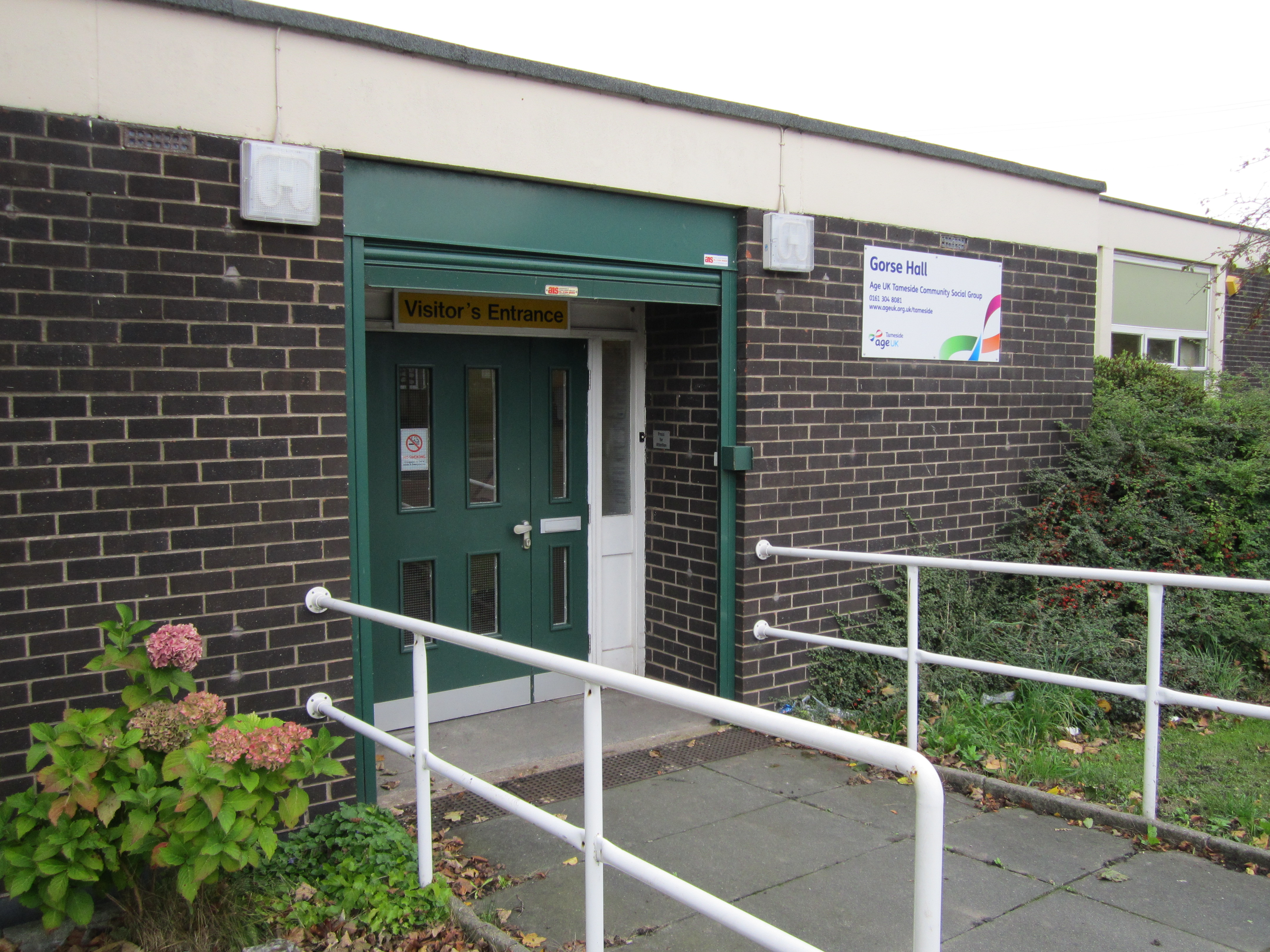 Gorse Hall Age UK Social Group, Stalybridge, Greater Manchester, England.